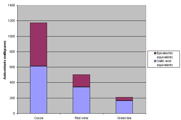 Antioxidants in hot chocolate compared with that in red wine and green tea.